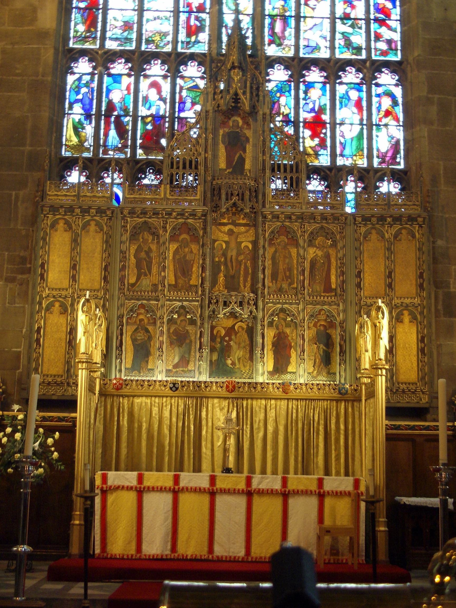 Reredos, St. Mary's church, Nottingham